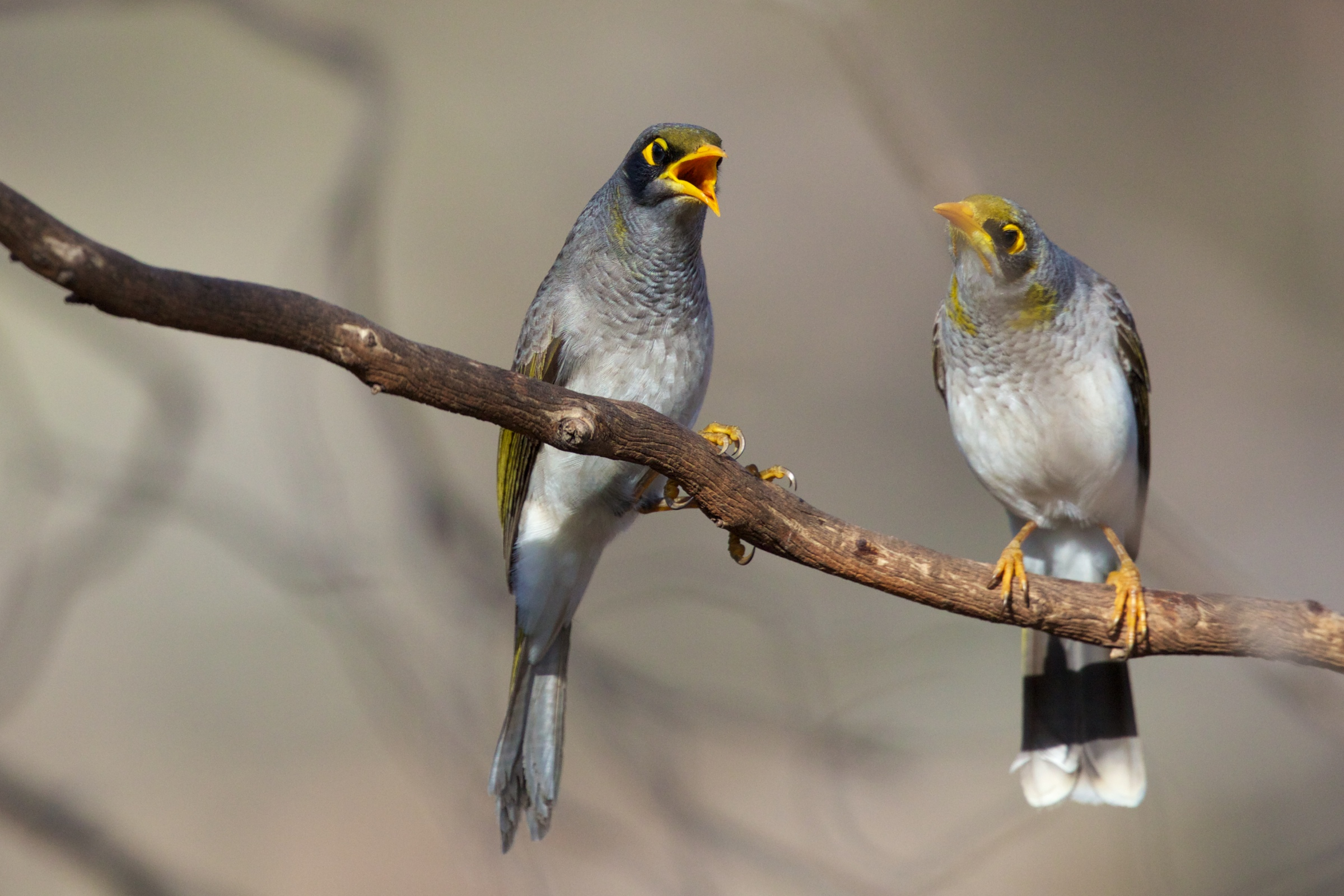 Left is a hybrid yellow-throated x black-eared miner (note dark stripe under lower mandible, less yellow on throat, and darker head) while right is a typical yellow-throated miner (Manorina flavigula) Old Gluepot,Gluepot Reserve, South Australia. Taken on June 14, 2013